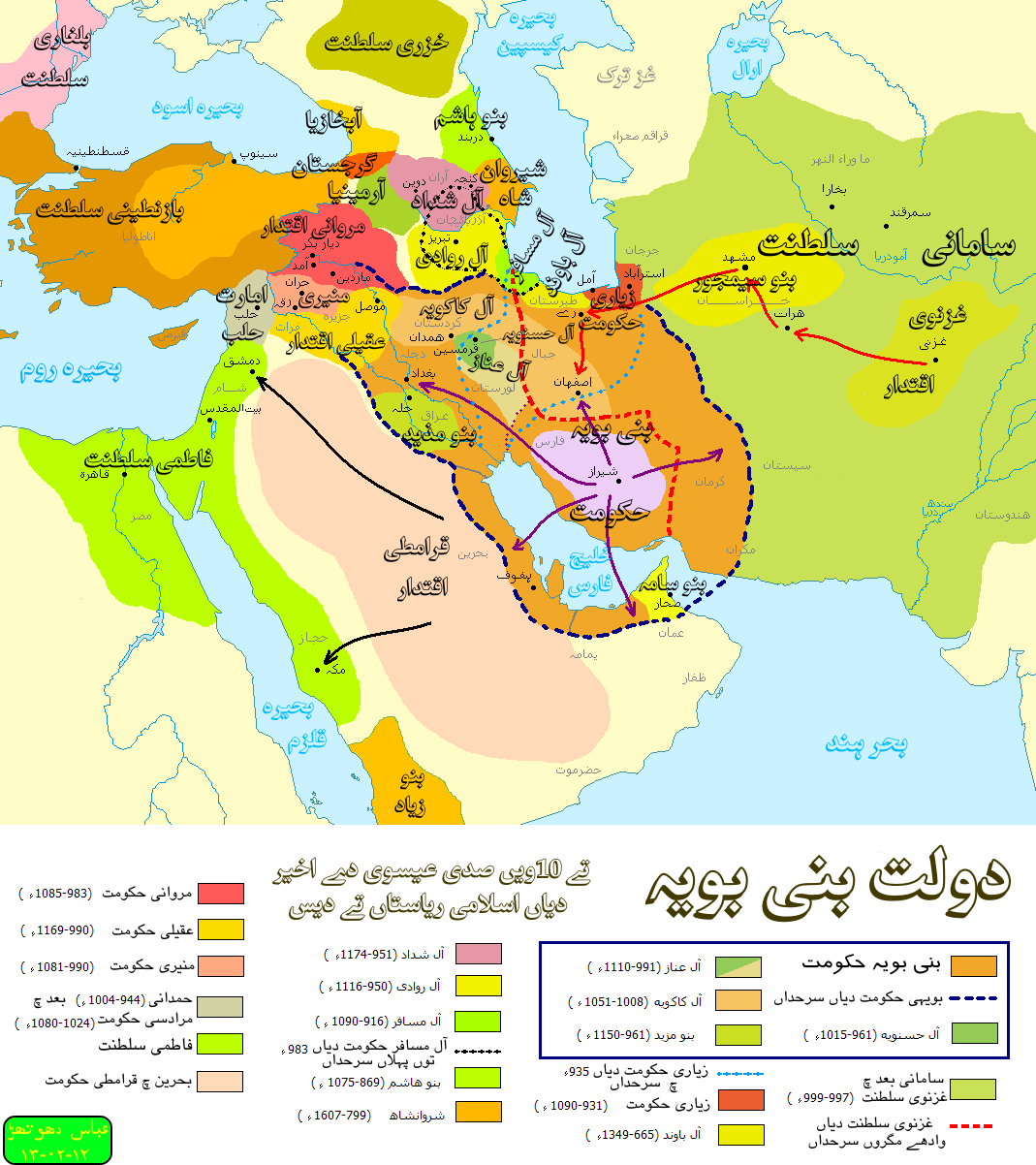 A map of Buvid government in western Punjabi.